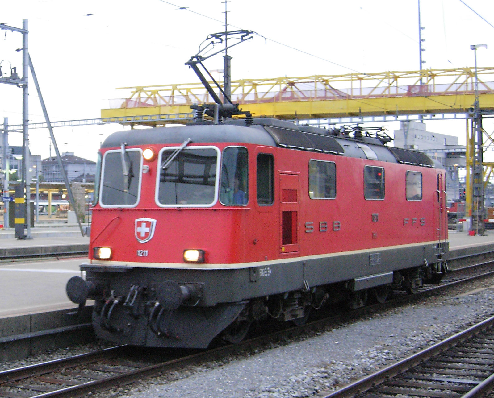 Re 420 (Re 4/4 II) of the SBB in Zürich Hauptbahnhof